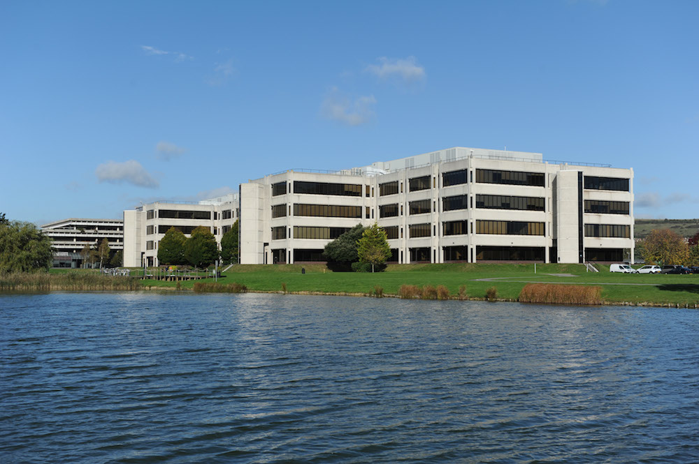 1000 Lakeside complex in North Harbour, Portsmouth. Image taken by Paul Jacobs, of The News, Portsmouth, and permission granted for use.